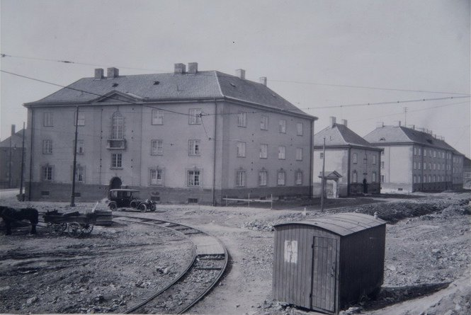 Balloon loop of the Korsvoll Line at Lisa Kristoffersen plass (its terminus).